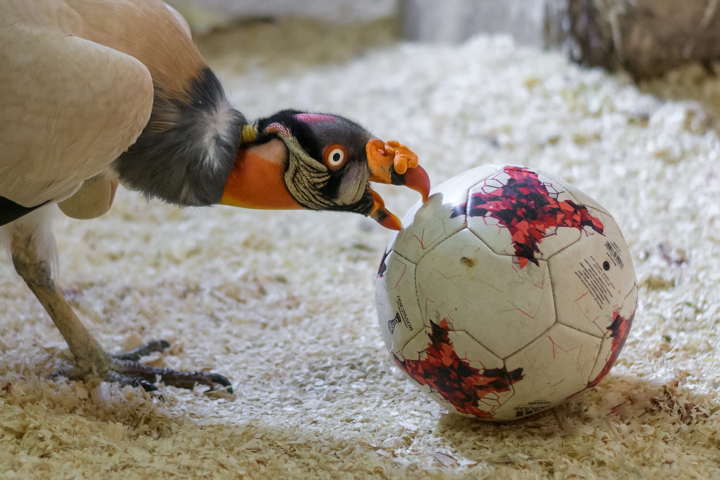 king vulture with a ball, enrichment, Prague Zoo